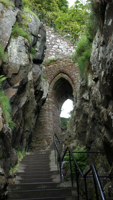 Dumbarton Castle, West Dunbartonshire, Scotland - portcullis arch